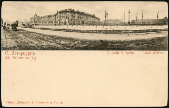 Saint Petersburg (Russia), Palace Square.